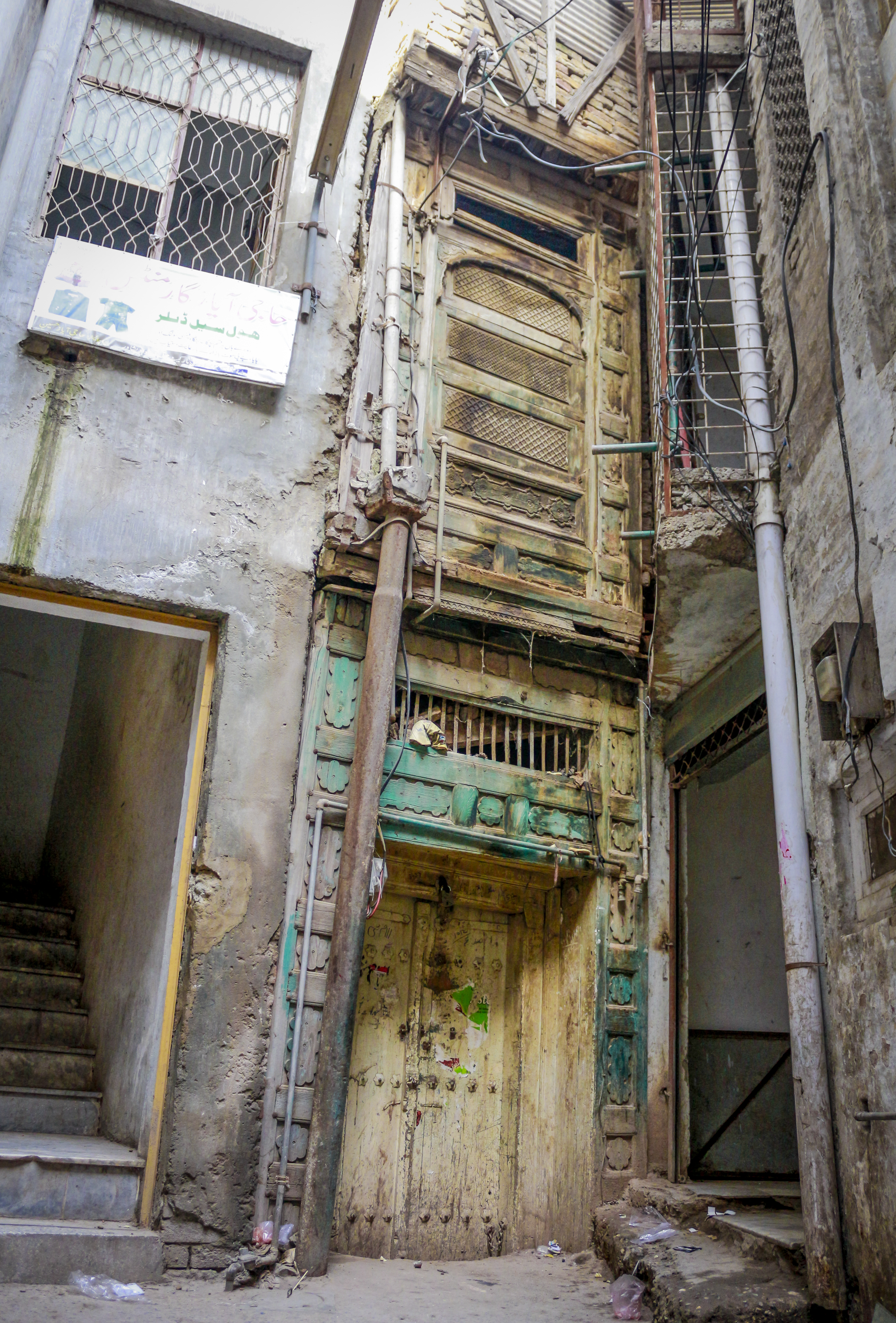 This is the famous ancestral house of the famous bollywood artist, Delip Kumar. It is located in the narrow streets of Qissa Khawani Bazaar in Peshawar. A hard to find place in the congested city and even harder to photograph it's full face because of the limited 3-5 meter width of the passage on the front. This is a photo of a monument in Pakistan identified as the KPK-4